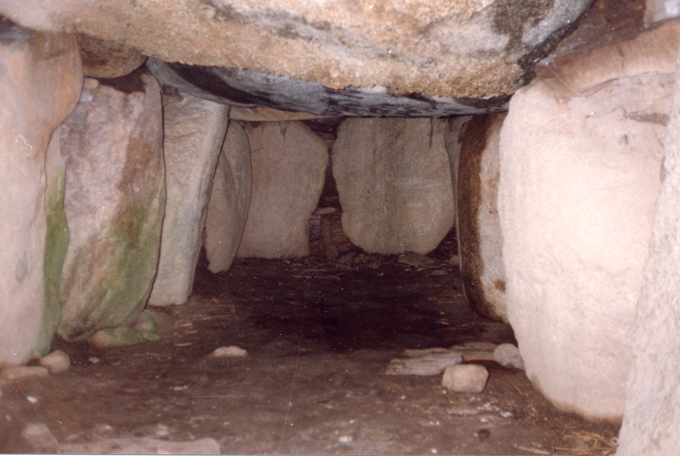 Dolmen Sønderskoven near Sønderborg, Als Island, Danmark